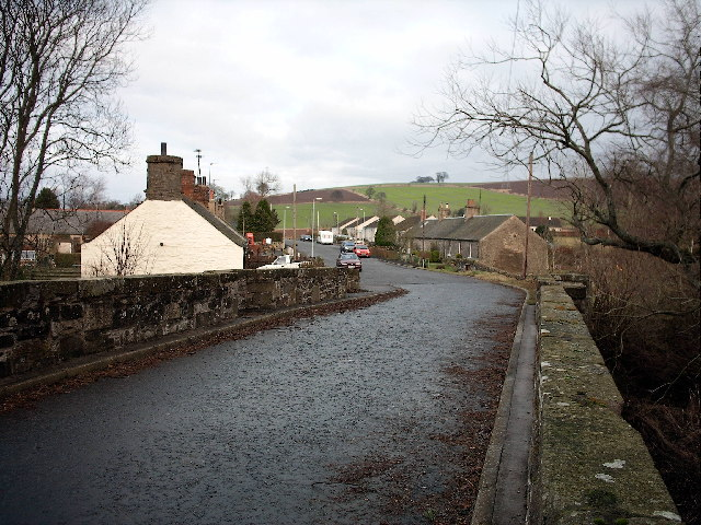 The village of Douglastown near Forfar